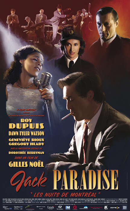 Poster of the movie Jack Paradise (Q652290)